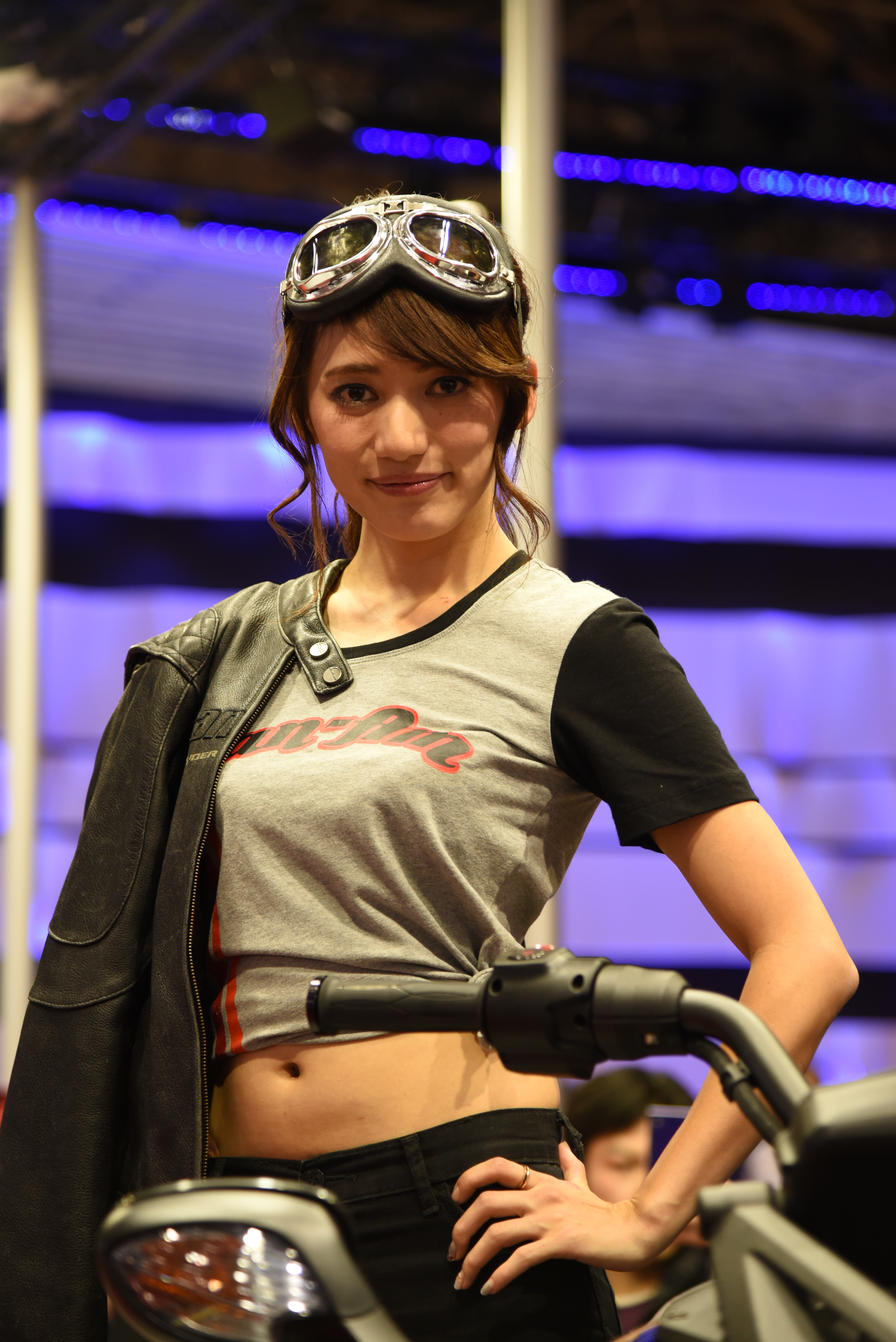 The 44th Tokyo Motor Show 2015_D750_38